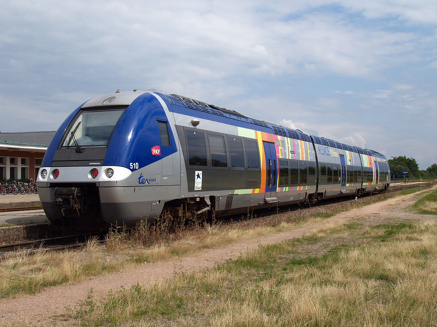 SNCF diesel train that connects Wissembourg with Hagenau. TER stands for Train Express Regional. SNCF has hundreds of these Bombardier trains, including electric versions.